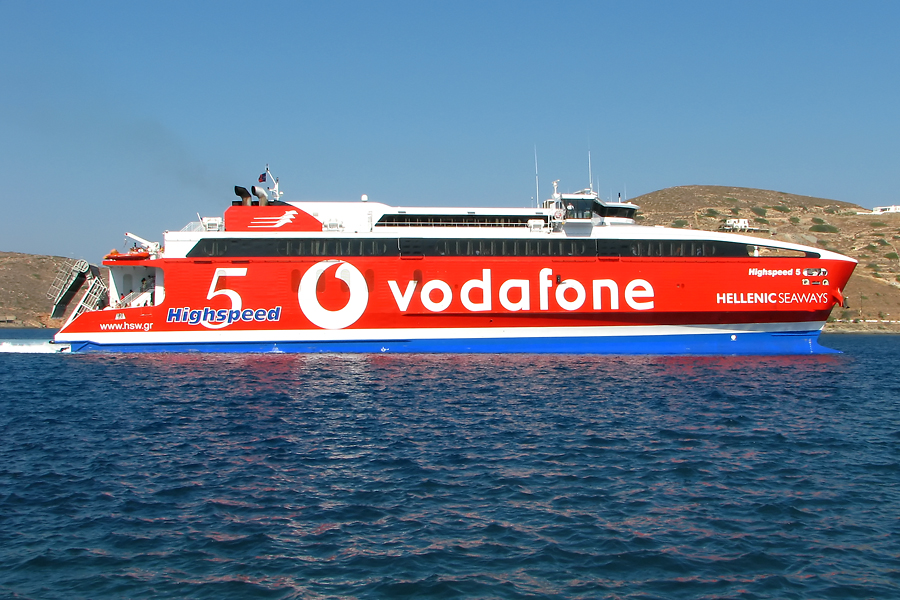 HSW Highspeed 5 in the port of Ios, Greece.